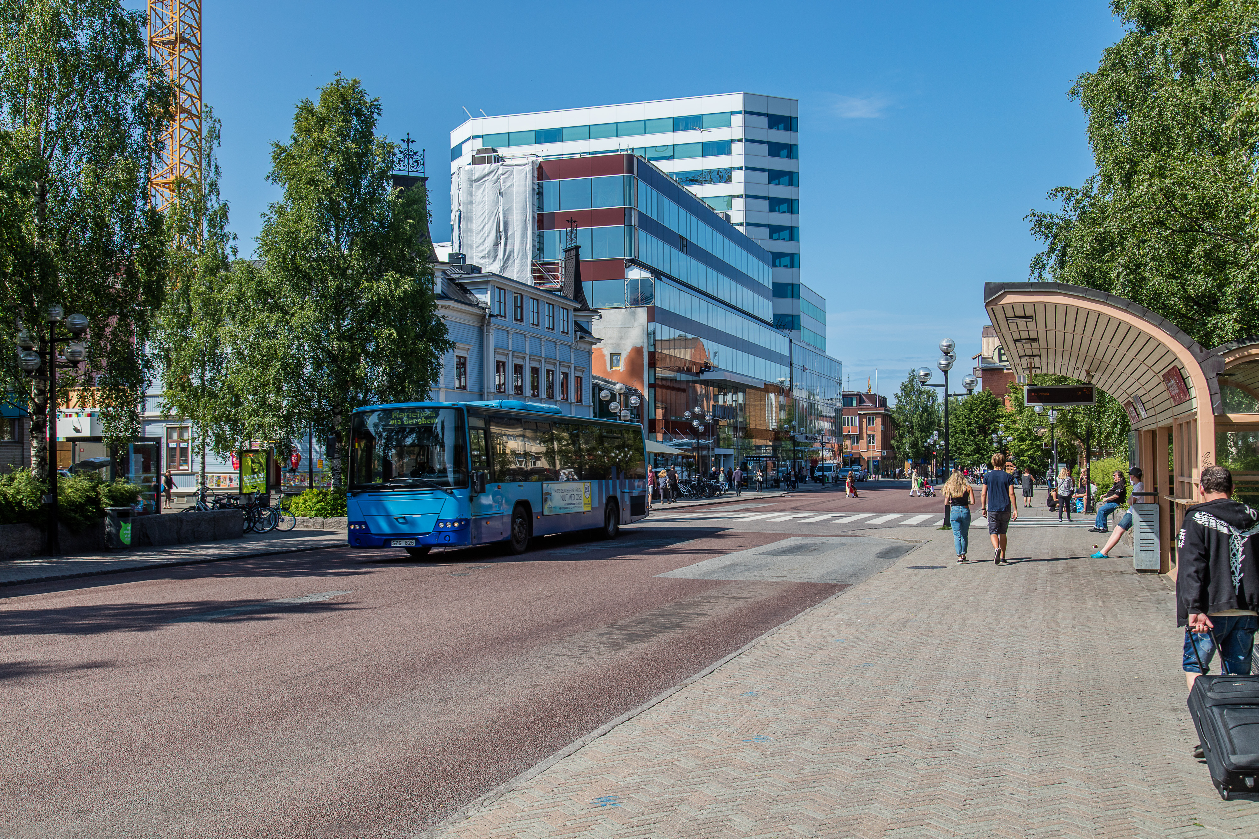 Vasaplan is the central hub for local buses in Umeå, and surrounded by a lot of restaurants and hotels.